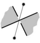 A crossing of two threads can be encoded as a positive edge of the medial graph.